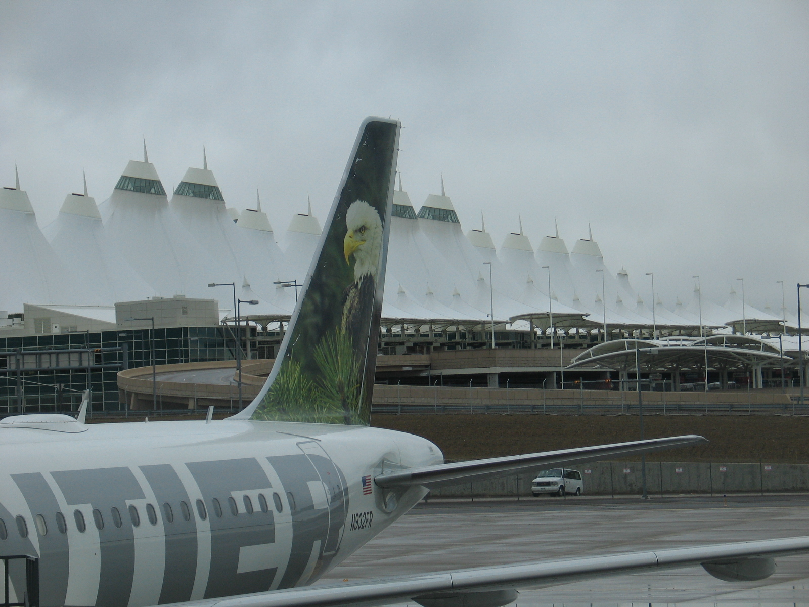 Airbus A319 at Denver International